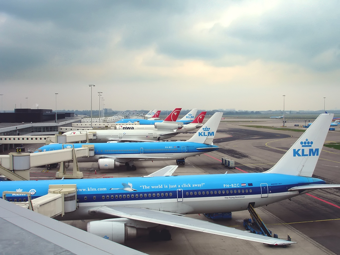 Part of the KLM fleet at Schiphol Airport. Also seen are three Northwest Airlines aircraft. KLM and NWA cooperate very intensively.